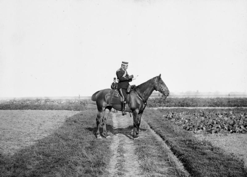 The Imperial German Army 1890 - 1913 The Earl of Lonsdale on horseback and wearing the uniform of the Westmorland and Cumberland Yeomanry during the manoeuvres of 1902.